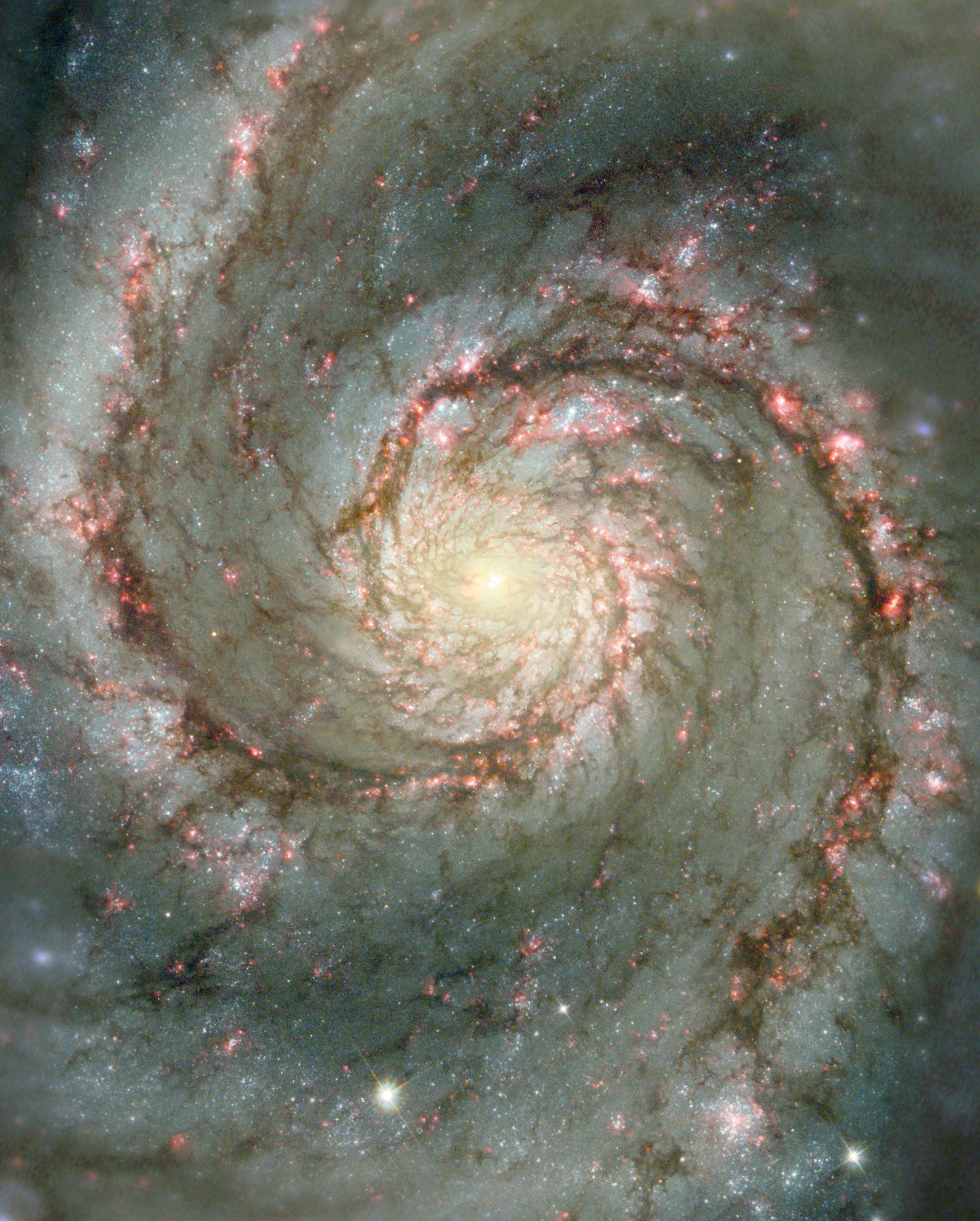 This Hubble composite image shows visible starlight as well as light from the emission of glowing hydrogen, which is associated with the most luminous young stars in the spiral arms. The Whirlpool Galaxy, also known as M51 or NGC 5194, is having a close encounter with a nearby companion galaxy, NGC 5195, just off the upper edge of this image. The companion's gravitational pull is triggering star formation in the main galaxy, as seen in brilliant detail by numerous, luminous clusters of young and energetic stars. The bright clusters are highlighted in red by their associated emission from glowing hydrogen gas. This Wide Field Planetary Camera 2 image enables researchers to clearly define the structure of both the cold dust clouds and the hot hydrogen and link individual clusters to their parent dust clouds. Intricate structure is also seen for the first time in the dust clouds. Along the spiral arms, dust "spurs" are seen branching out almost perpendicular to the main spiral arms. The regularity and large number of these features suggests to astronomers that previous models of "two-arm" spiral galaxies may need to be revisited. The new images also reveal a dust disk in the nucleus, which may provide fuel for a nuclear black hole.